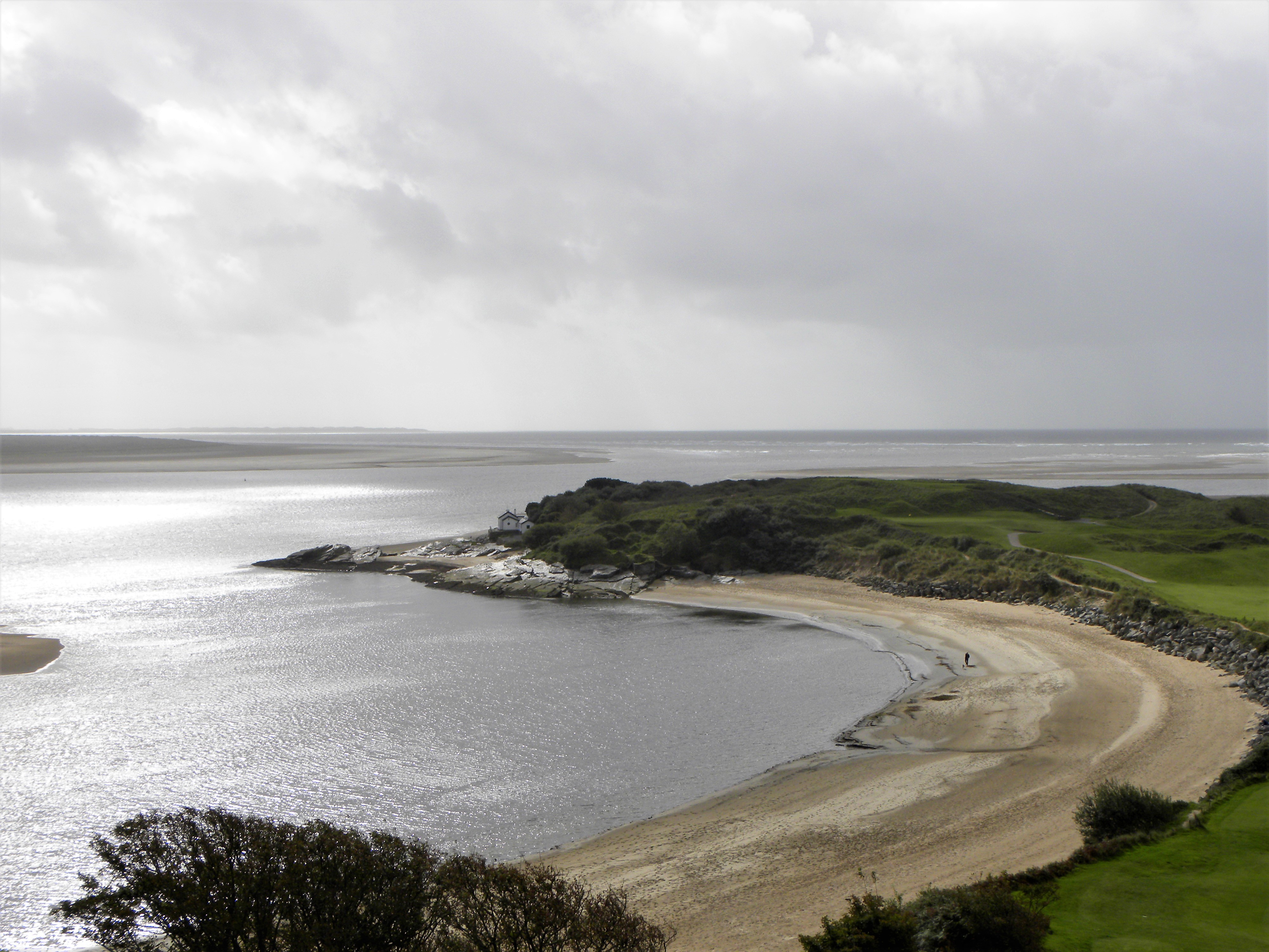 View to Ynys Cyngar